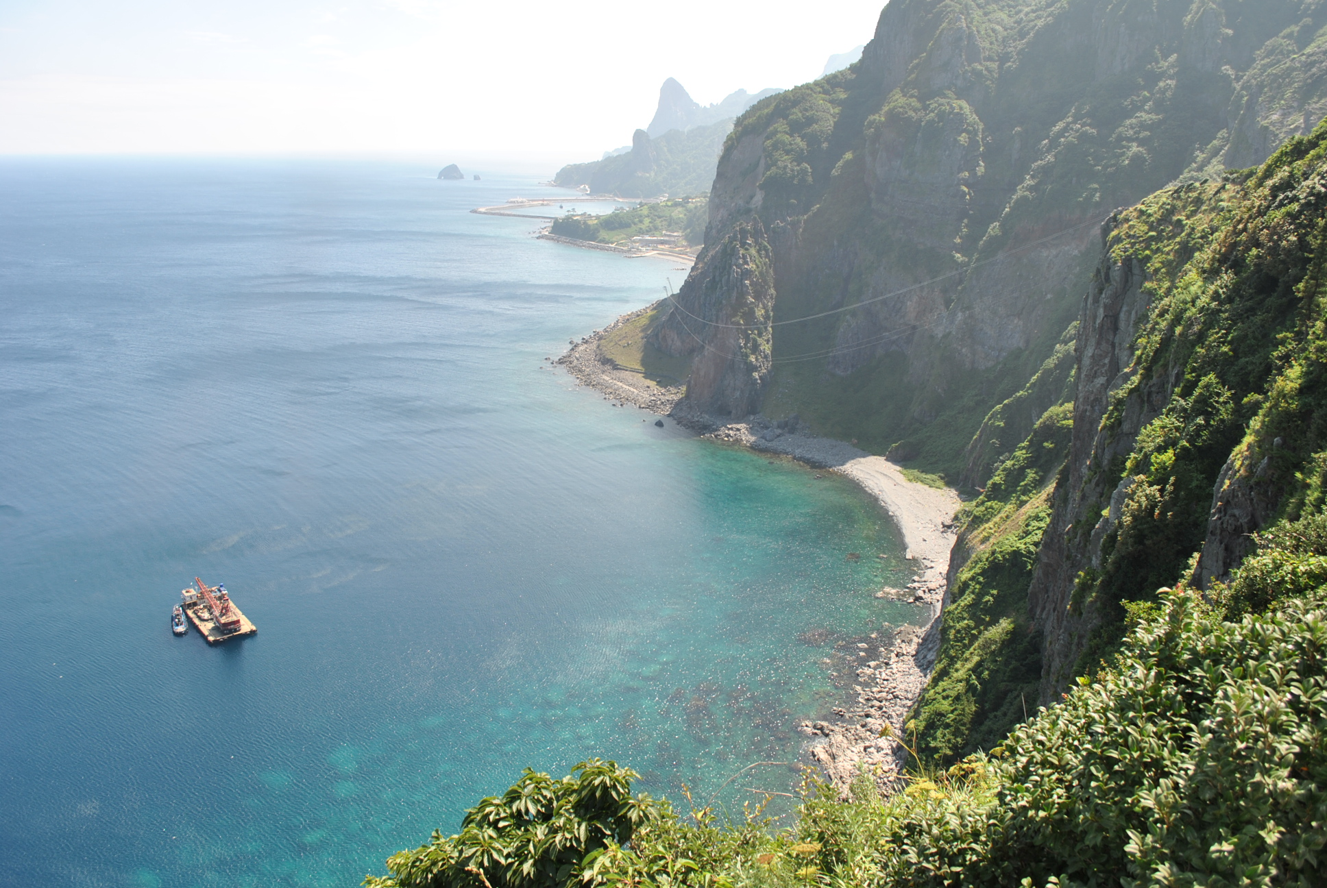 Ulleungdo, or Ulleung Island, may not be as famous or popular as Korea’s most well-known resort island of Jeju or Jejudo. Yet when it comes to beauty and charm, Ulleungdo can still compete.